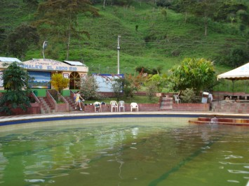 Aguas termales